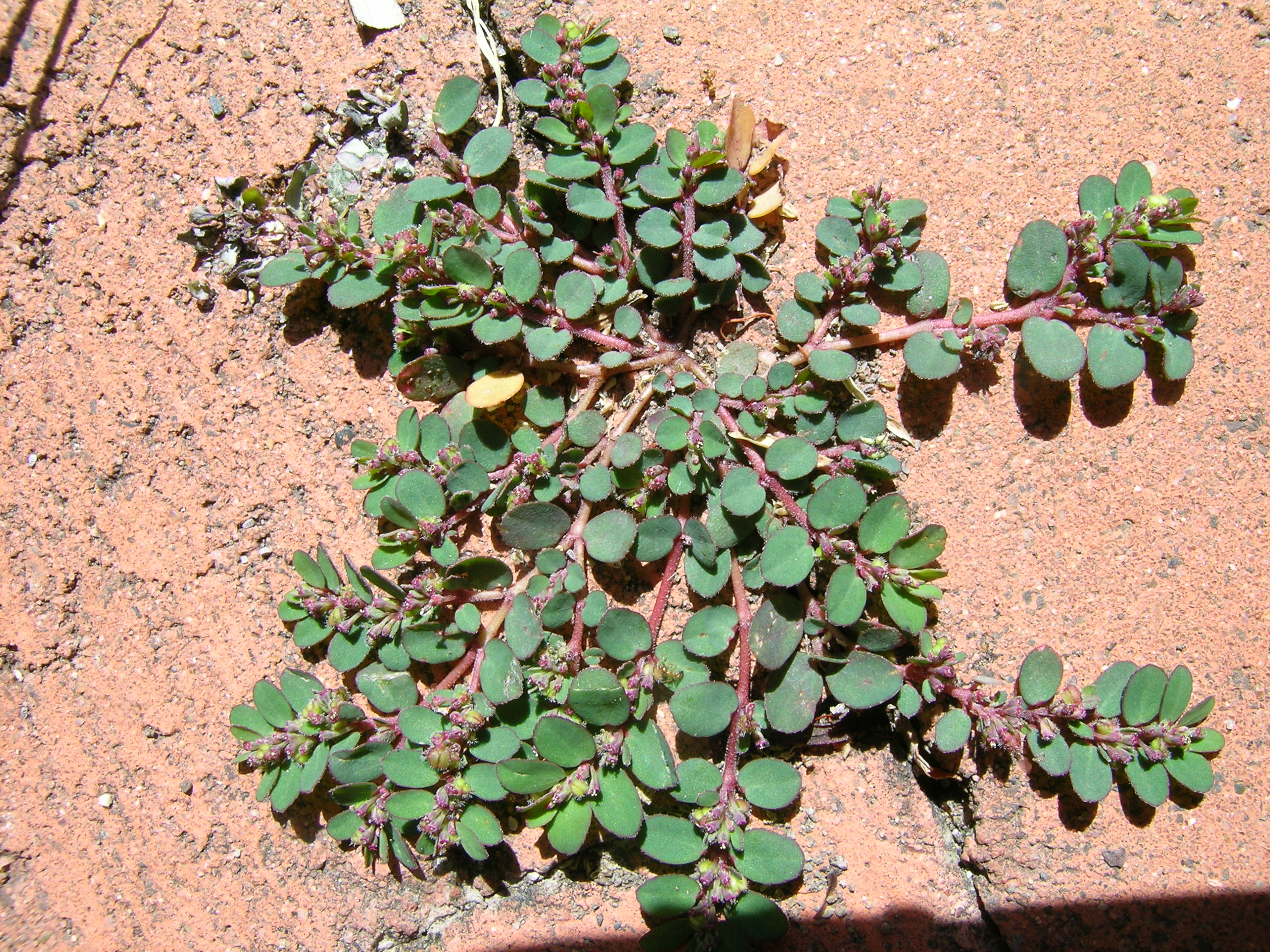 Introduced, warm-season, annual, prostrate herb. Stems are to 20 cm long, forming dense mats, sparsely hairy and reddish. Leaves are oblong to obovate, 3–8 mm long, 1–5 mm wide, finely toothed towards the apex and with an asymmetric base. Cyathia have ovate, red glands and inconspicuous white to pink, narrow appendages about 0.2 mm wide. Flowering is mainly in summer. A native of tropical America, it often occurs in cracks of paths and in gardens.